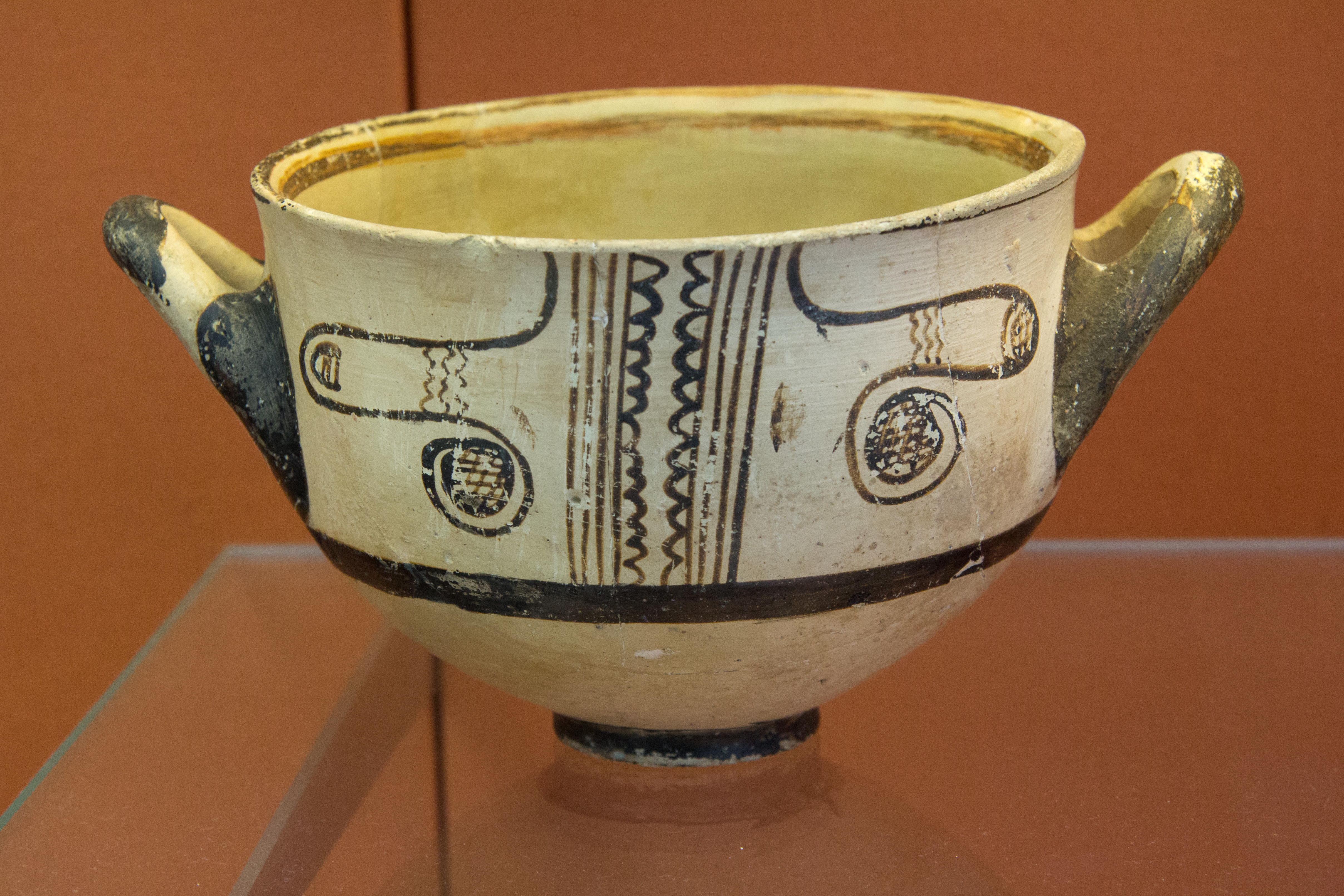 Myenaean poterry bowl with a pattern derived from the popular cuttlefish motif, 1200-1100 BC (LH IIIc). Found on Kalymnos. British Museum, GR 1886.4-15.9. BM Cat Vases A1019.